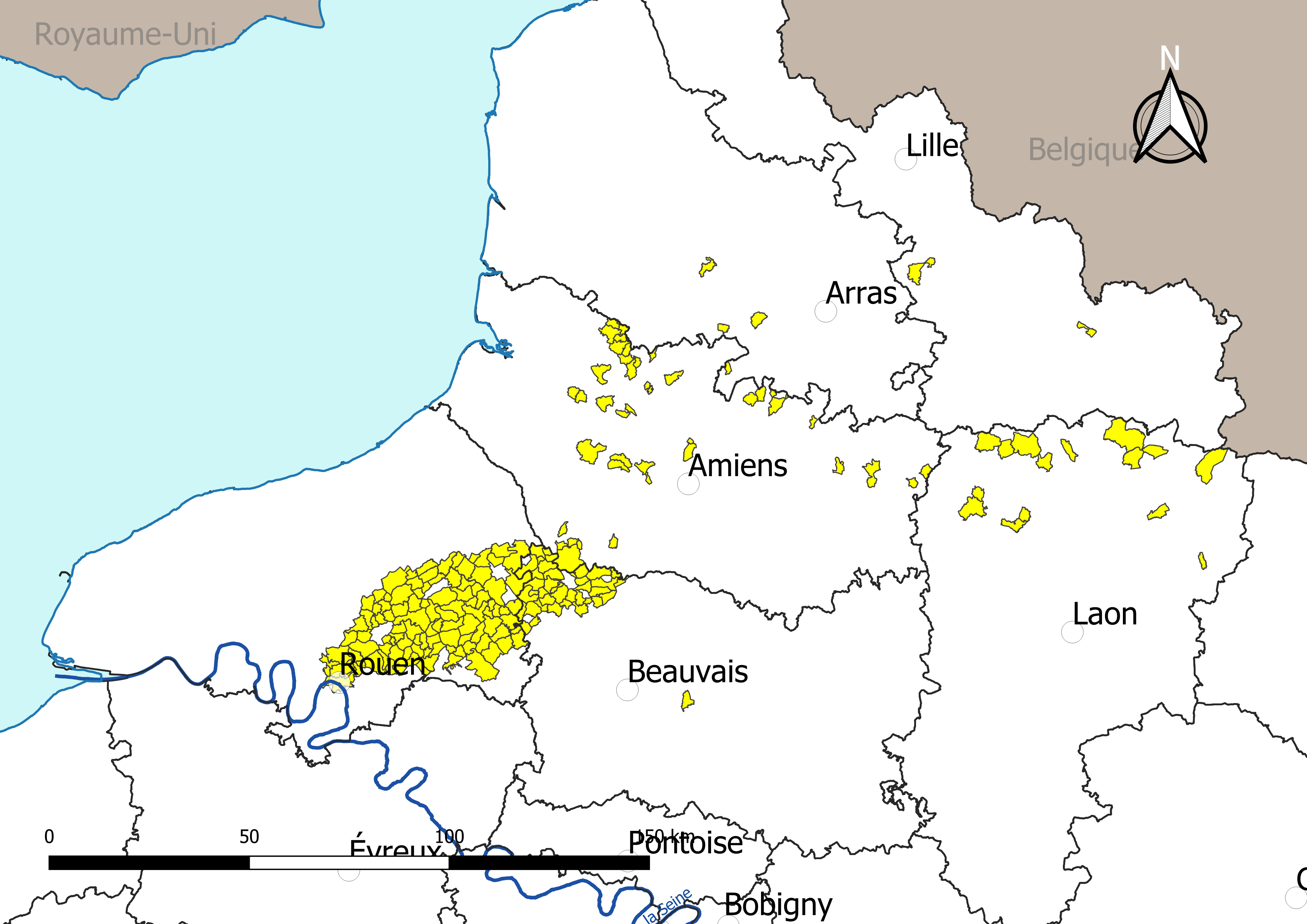 Map of the french municipalities concerned by a "prefectural decree" limiting certain agricultural activities and restricting the placing on the market of food products which animal and vegetable origin, following the fire of the Lubrizol factory in Rouen (Normandie, France) on September 26, 2019. Map stopped on 2 October 2019.